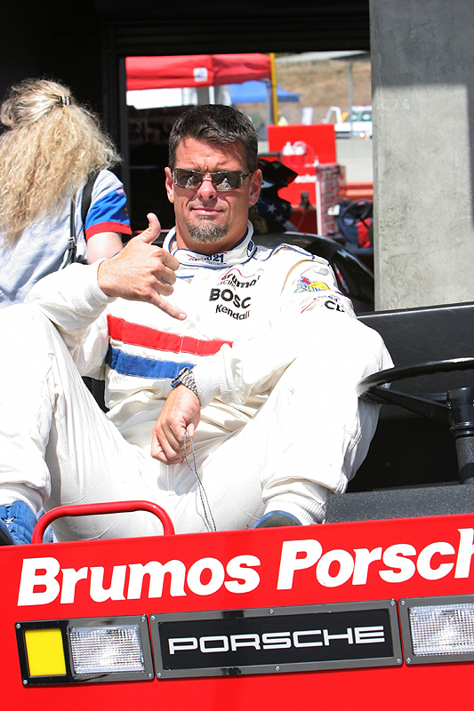 J.C. France at the 2005 Grand-Am race at Laguna Seca.